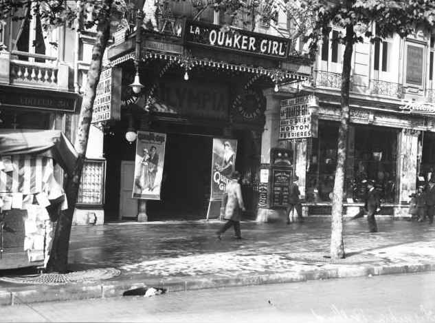 Paris Olympia, Boulevard des Capucines, 1913